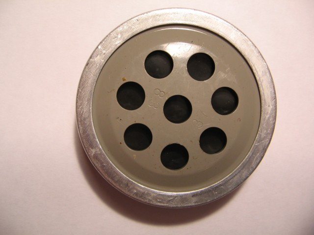 Carbon microphone removed from a Western Electric telephone that was manufactured about 1976. Gerry Ashton photo.